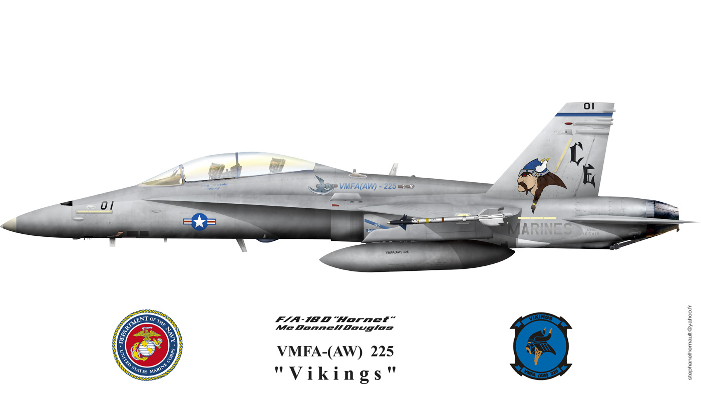 F/A-18D VMFA(AW)-225 color scheme